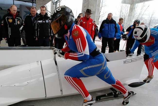 Test runs on the sledding and bobsleigh track, March 9, 2012.